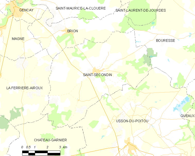 Map of French municipality Saint-Secondin